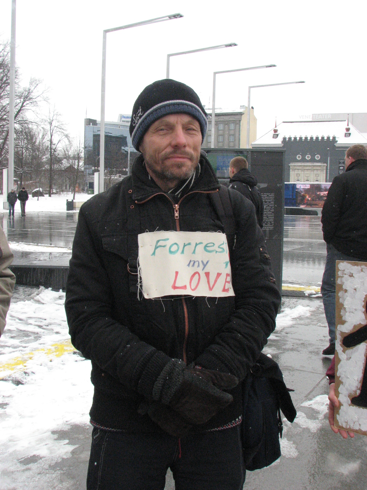 Peeter Liiv is Estonian radio journalist, lector, publicist